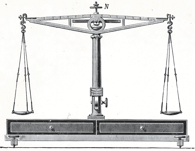 Weighing scale